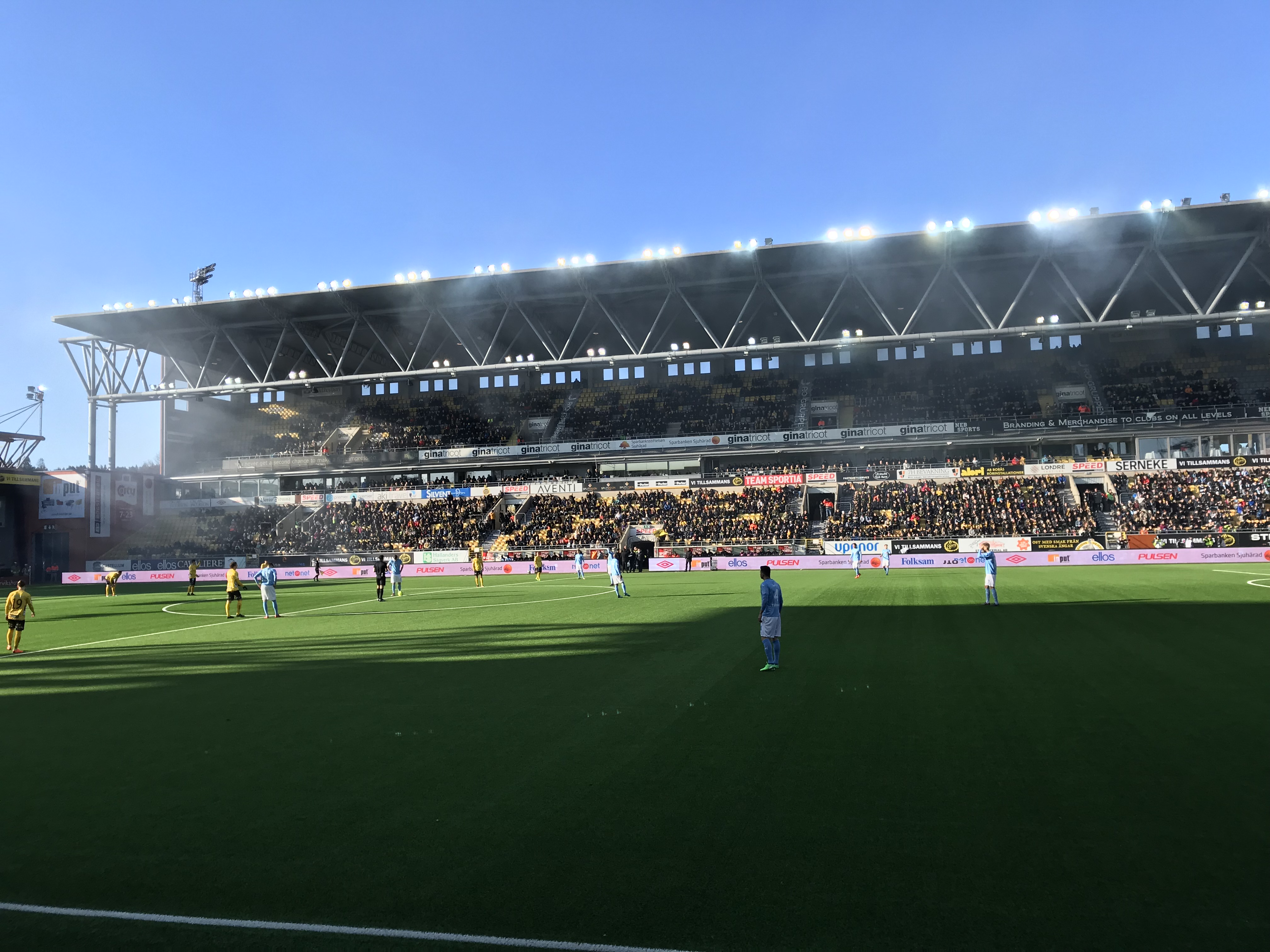 Match in the first round of "allsvenskan", IF Elfsborg- Malmö FF. Borås Arena.